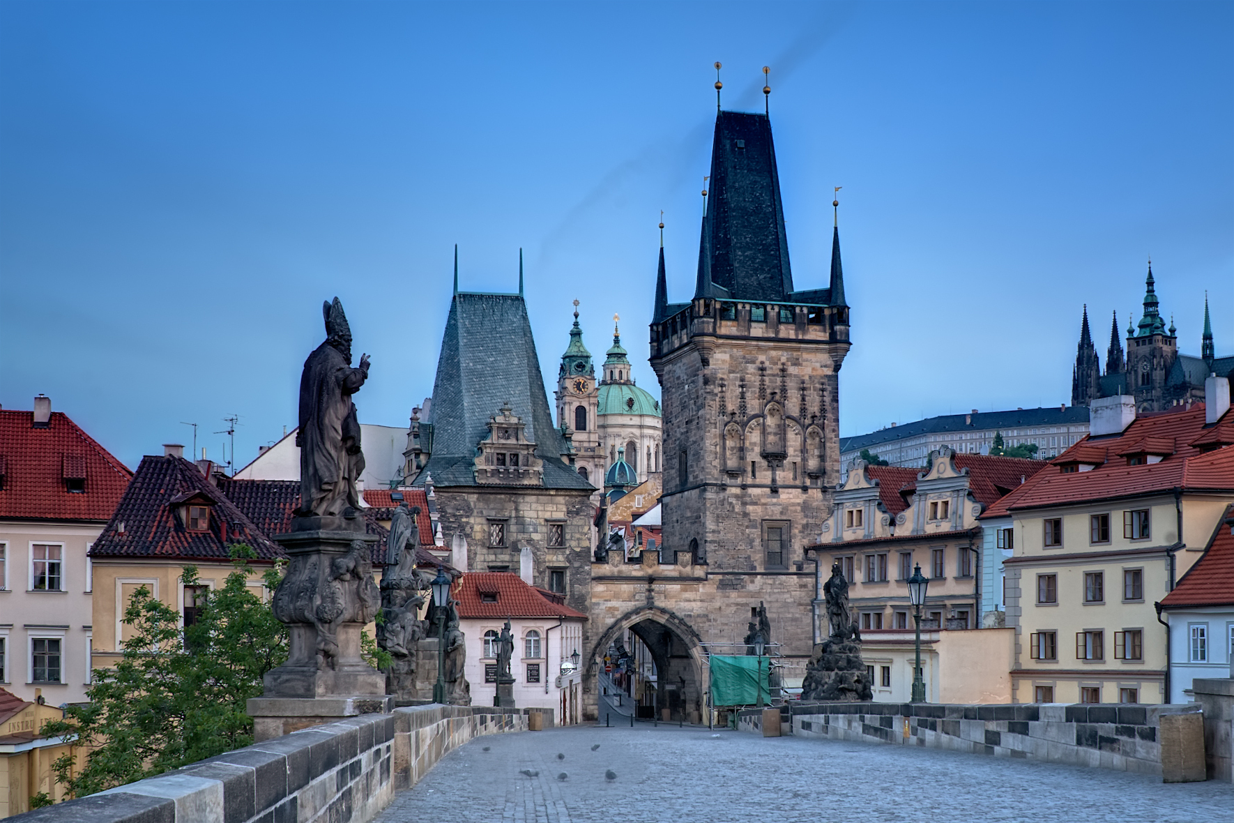 The always beautiful Charles Bridge in Prague. This image is from my trip to Prague in 2009, I have lots of Charles Bridge shots, this one is just after sunrise when the street lights went off. ISO 100, 28mm, f13, (0.25, 1.0, 4.0 secs). Blended in Photomatix and Tonemapped using Exposure Fusion to try to make it look as natural as possible.. Used Imagenomic Noiseware to reduce noise, especially on the sky. Used Nim Tonal Contrast on the buildings to give them more texture and structure. Used Nik Graduated Neutral Density to darken the sky a bit, then Nik Dartken Lighten Center to darken the edges a bit. Finally used a reverse curves in PS to reduce highlights without adding contrast. And now that I am all done I noticed that I messed up the ghost removal in Photomatix (the first step) when I removed the ghosts on the pigeons. I wanted to take a shortcut and selected the whole area around the pigeons. Laziness never pays.